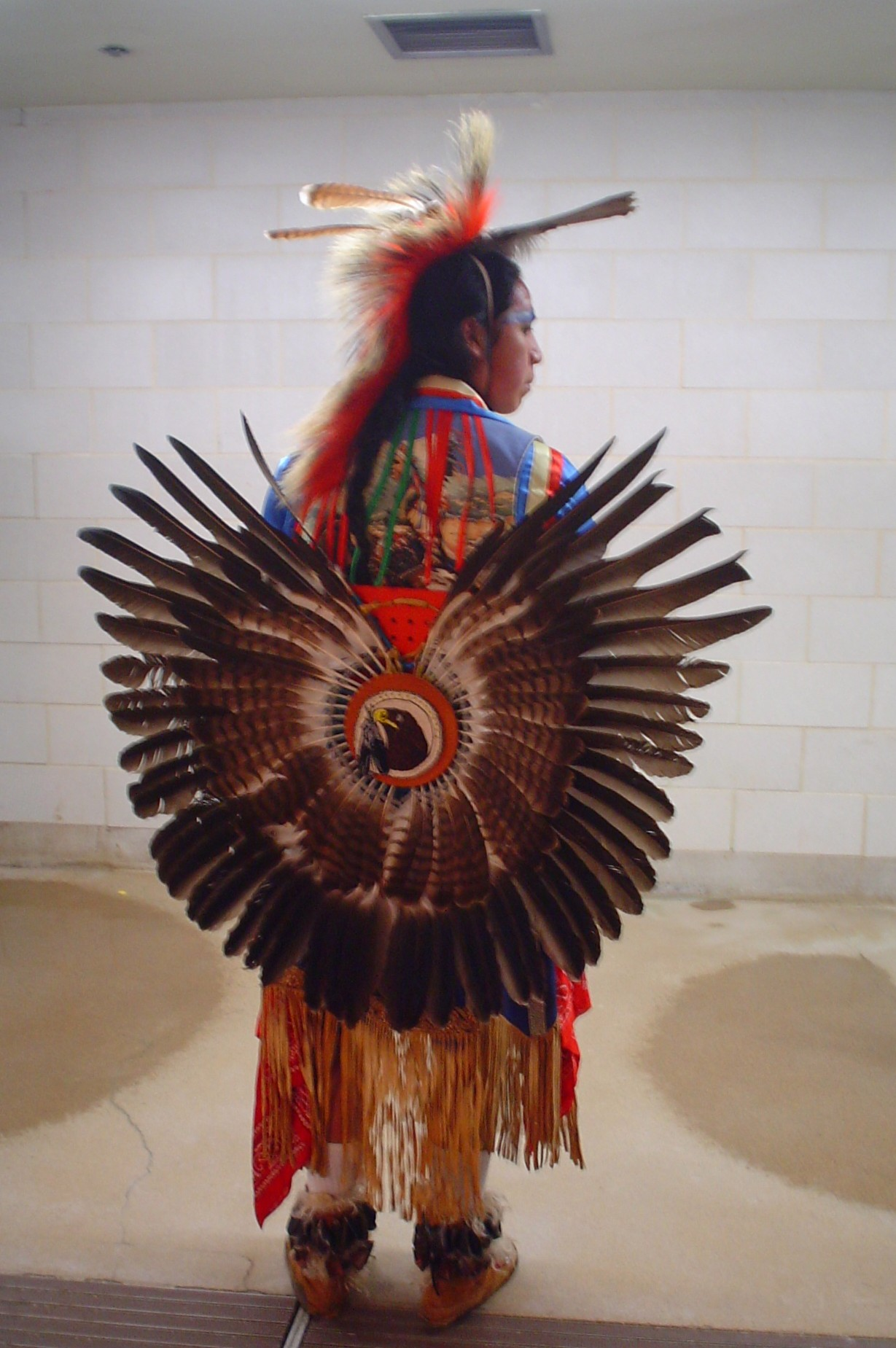 I took and release this picture. Andrew Parodi 06:49, 1 May 2007 (UTC)